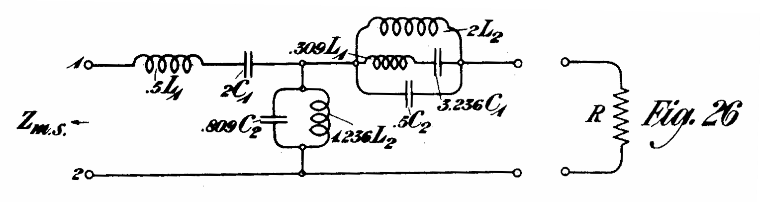 Impedance matching circuit showing m-derived topology.